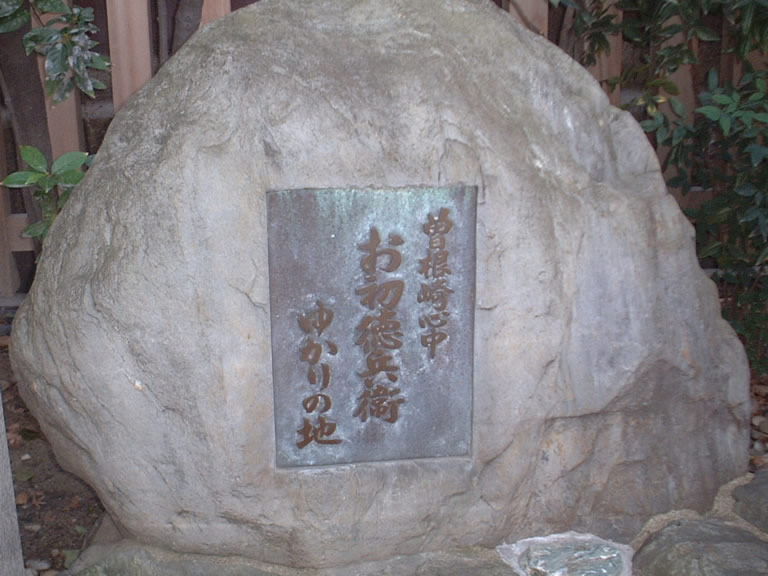 A picture of a memorial to Ohatsu and Tokubei from Chikamatsu Monzaemon's famous play, The Love Suicides at Sonezaki.